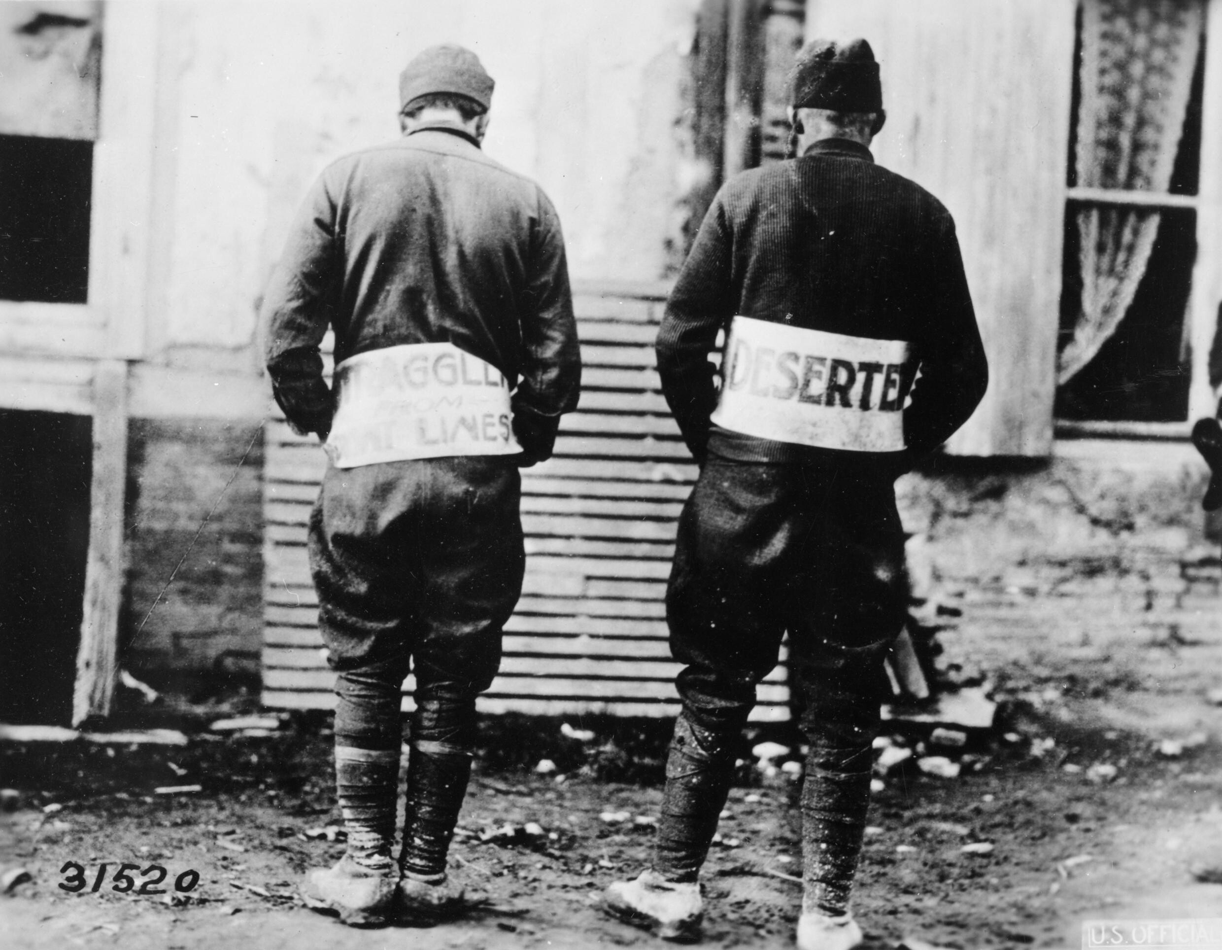 The US Army on the Western Front 1917-1918 Methods used by Americans to mark stragglers and deserters, Florent.